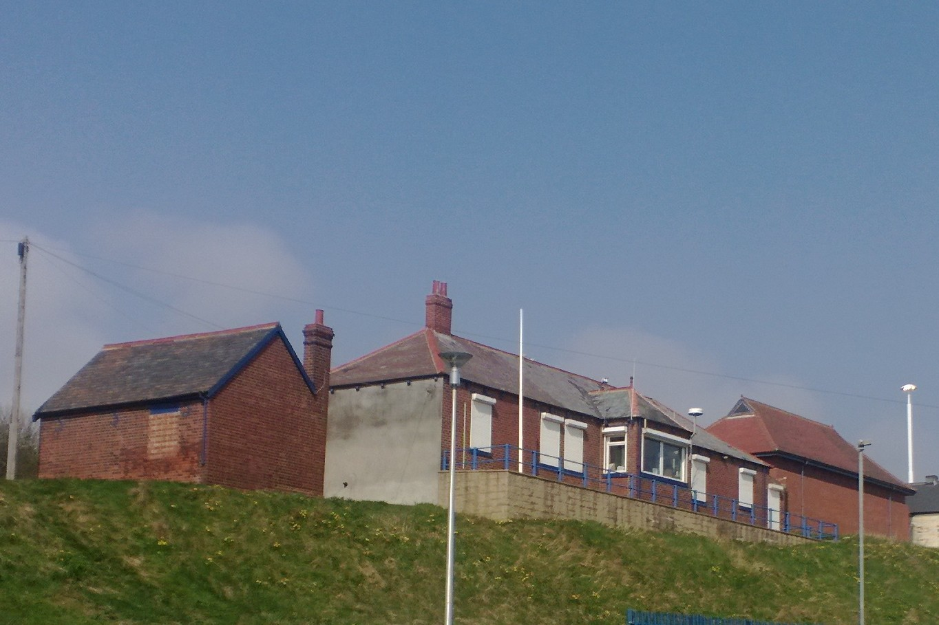 Watch House of the Sunderland Volunteer Life Brigade, an active land-sea rescue organisation established in 1877. Built for Roker VLB in 1906, the building (on Pier View, Roker) houses a small museum.